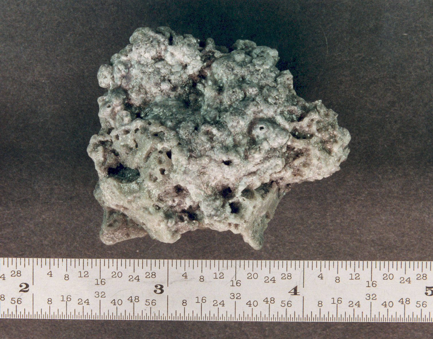 Space Debris Solid rocket motor (SRM) slag. Aluminum oxide slag is a byproduct of SRMs. Orbital SRMs used to boost satellites into higher orbits are potentially a significant source of centimeter sized orbital debris. This piece was recovered from a test firing of a Shuttle solid rocket booster.